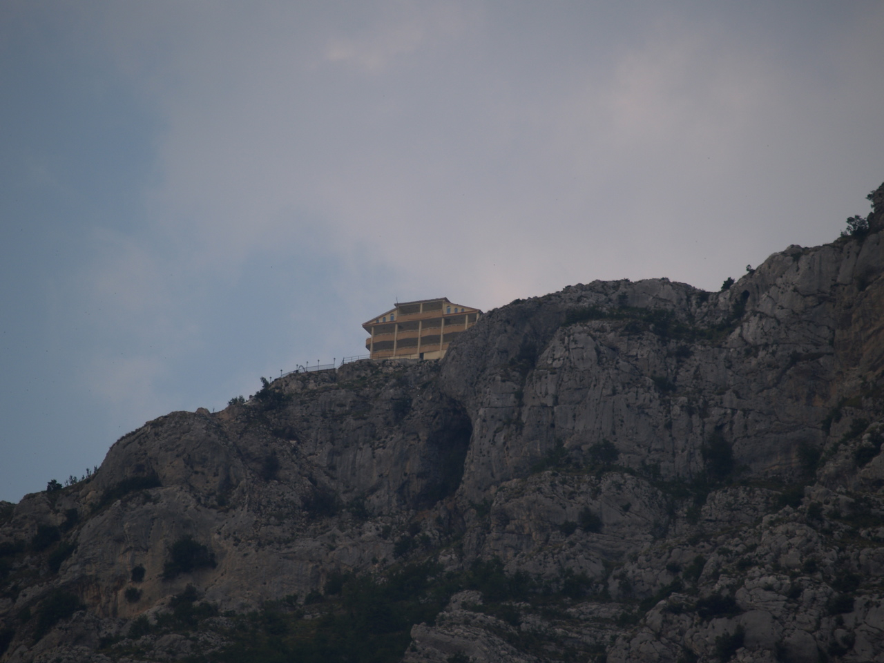 Holy Bektashi place of Sari Saltek above Kruja, Albania